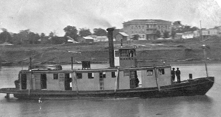 From U.S. Navy public domain Photo #: NH 55973 USS Daisy (1862-1865) Off Mound City, Illinois, during the Civil War. The Mound City hospital is in the background. U.S. Naval Historical Center Photograph.